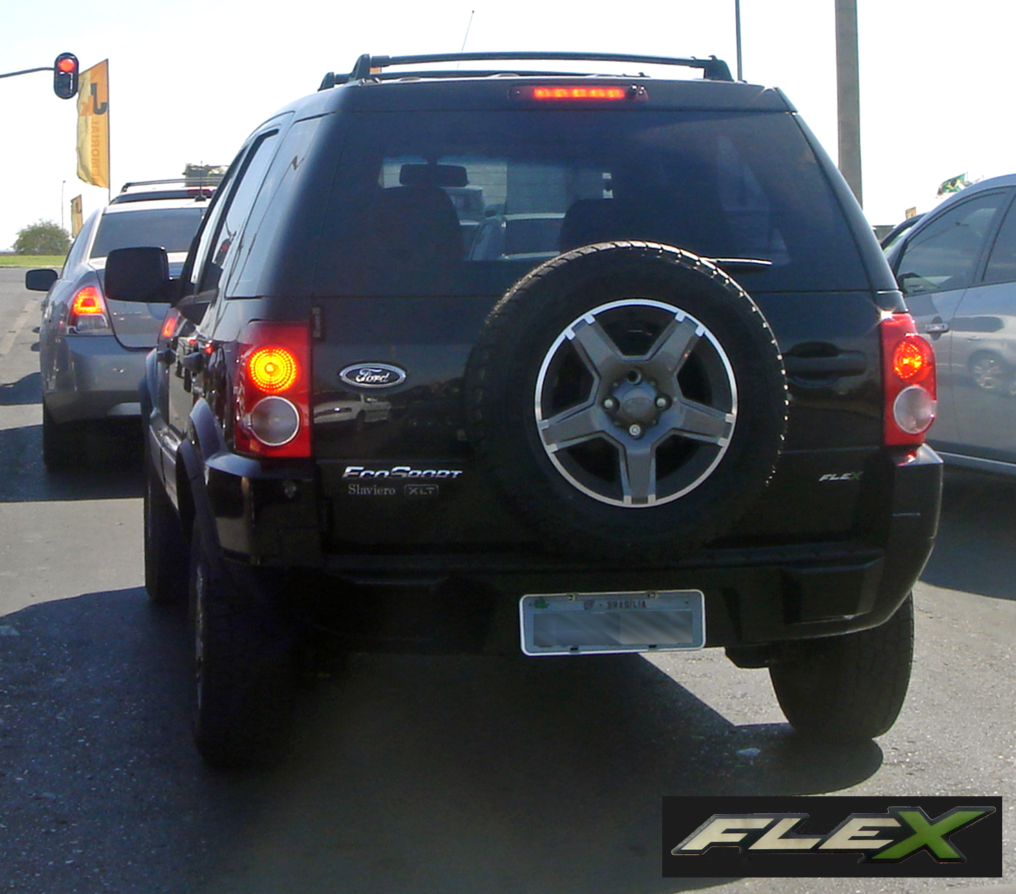 Brazilian flex-fuel version of Ford EcoSport Flex, shown rear view with Flex logo inserted with Photoshop